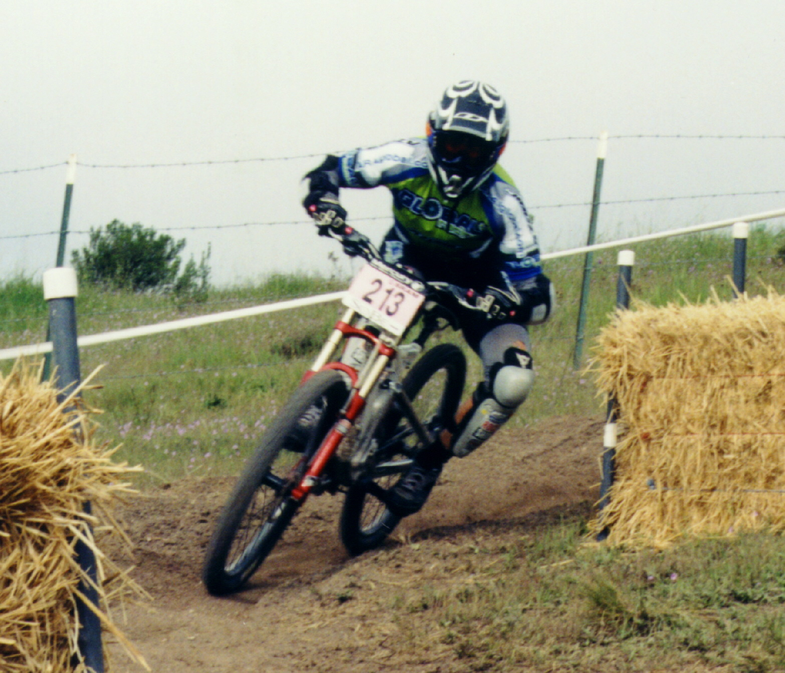 Missy Giove takes a corner while descending during the downhill mountain bike race at the 2001 Sea Otter Classic.